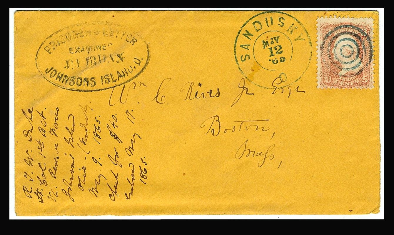 Prisoner of war covered mailed from Johnson's Island POW prison.